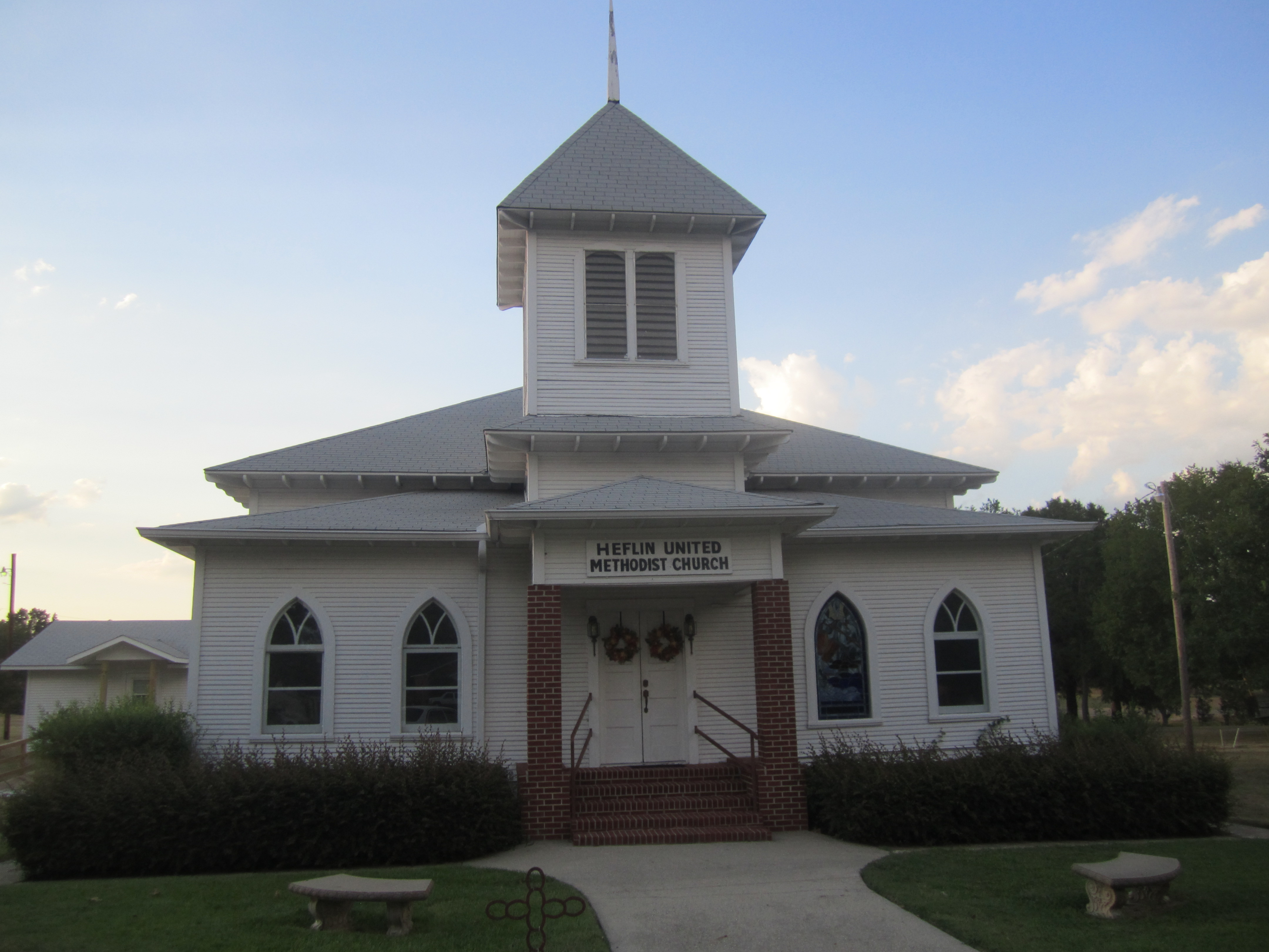 I took photo of First United Methodist Church in Heflin, LA, using Canon camera.